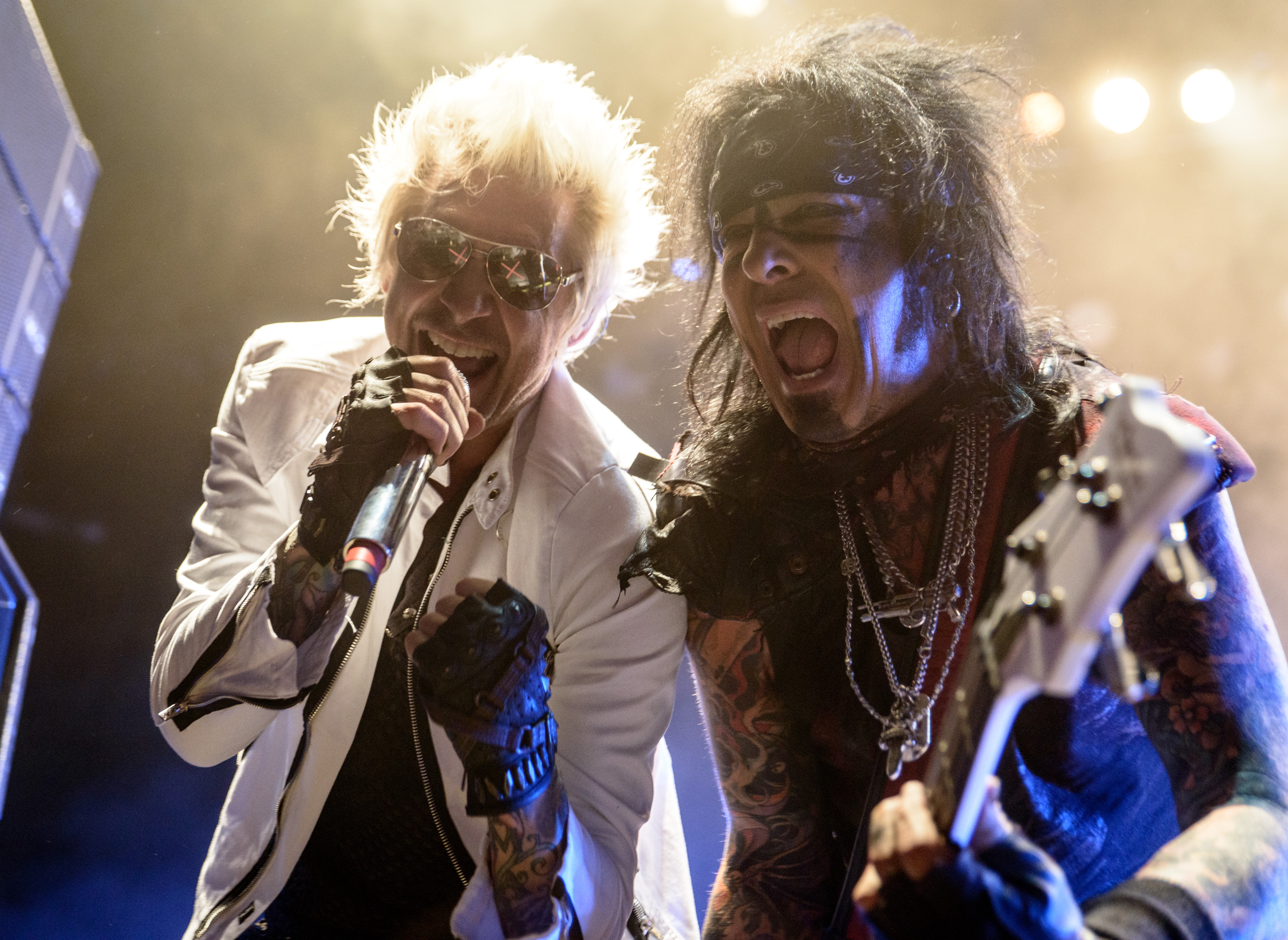 Sixx:A.M. @ Rock im Park 2016